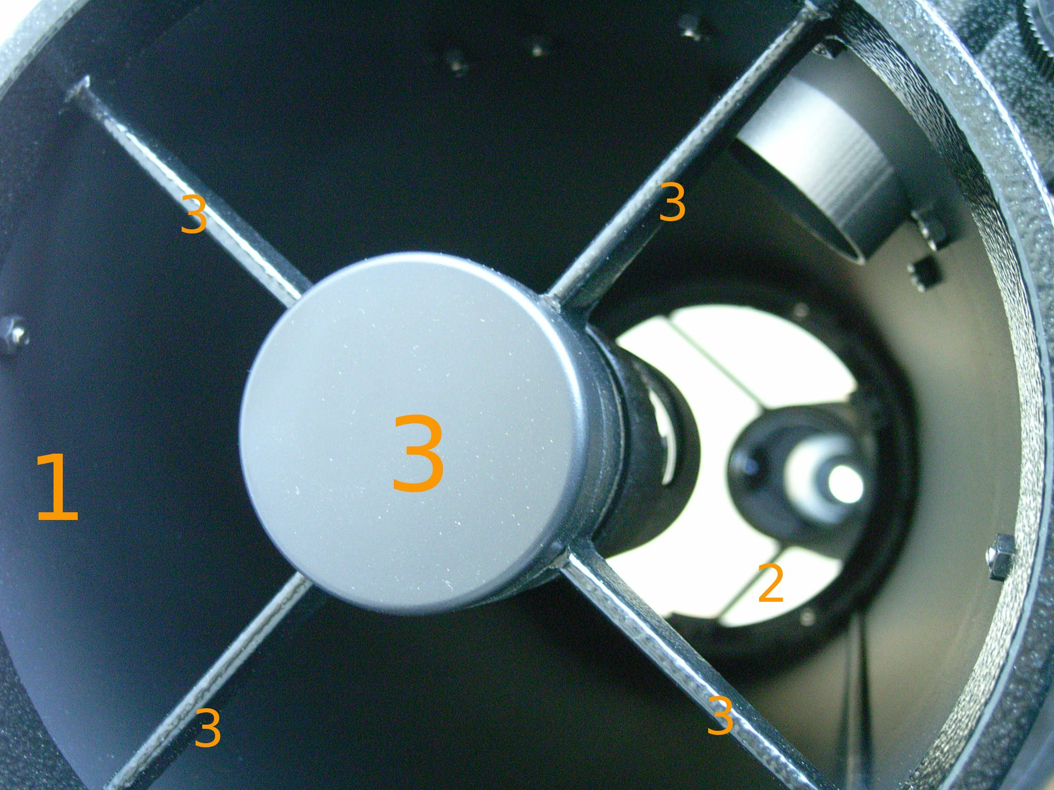 Newtonian scope.